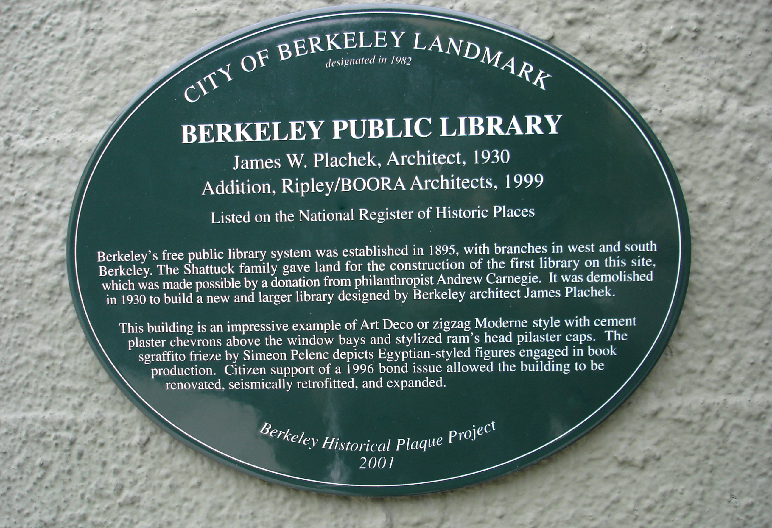 Berkeley Historical Landmark Plaque: Main Branch Public Library, Berkeley California